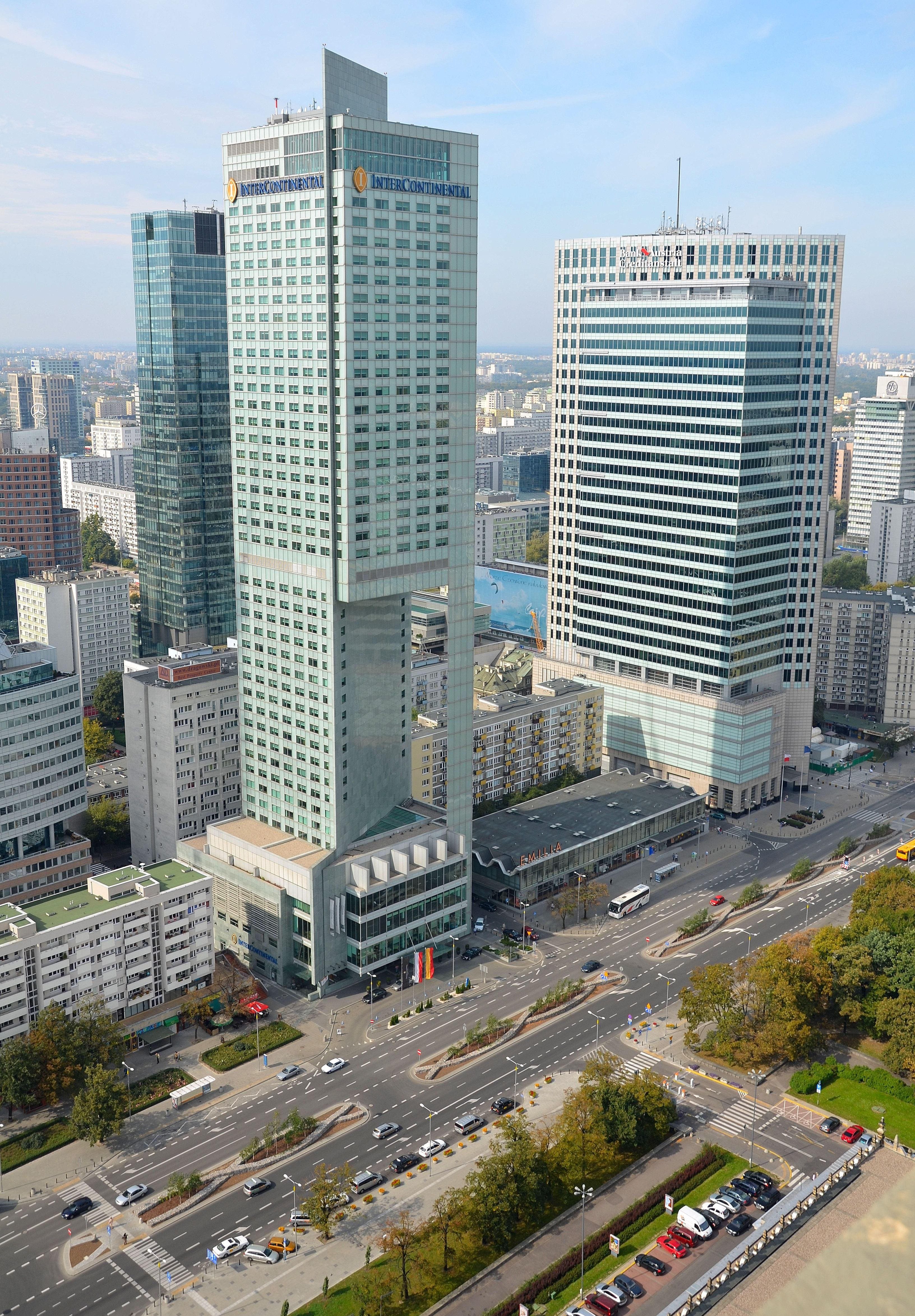 Emilii Plater Street in Warsaw